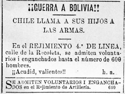 llamado a enrolarse en 1879 guerra del pacifico